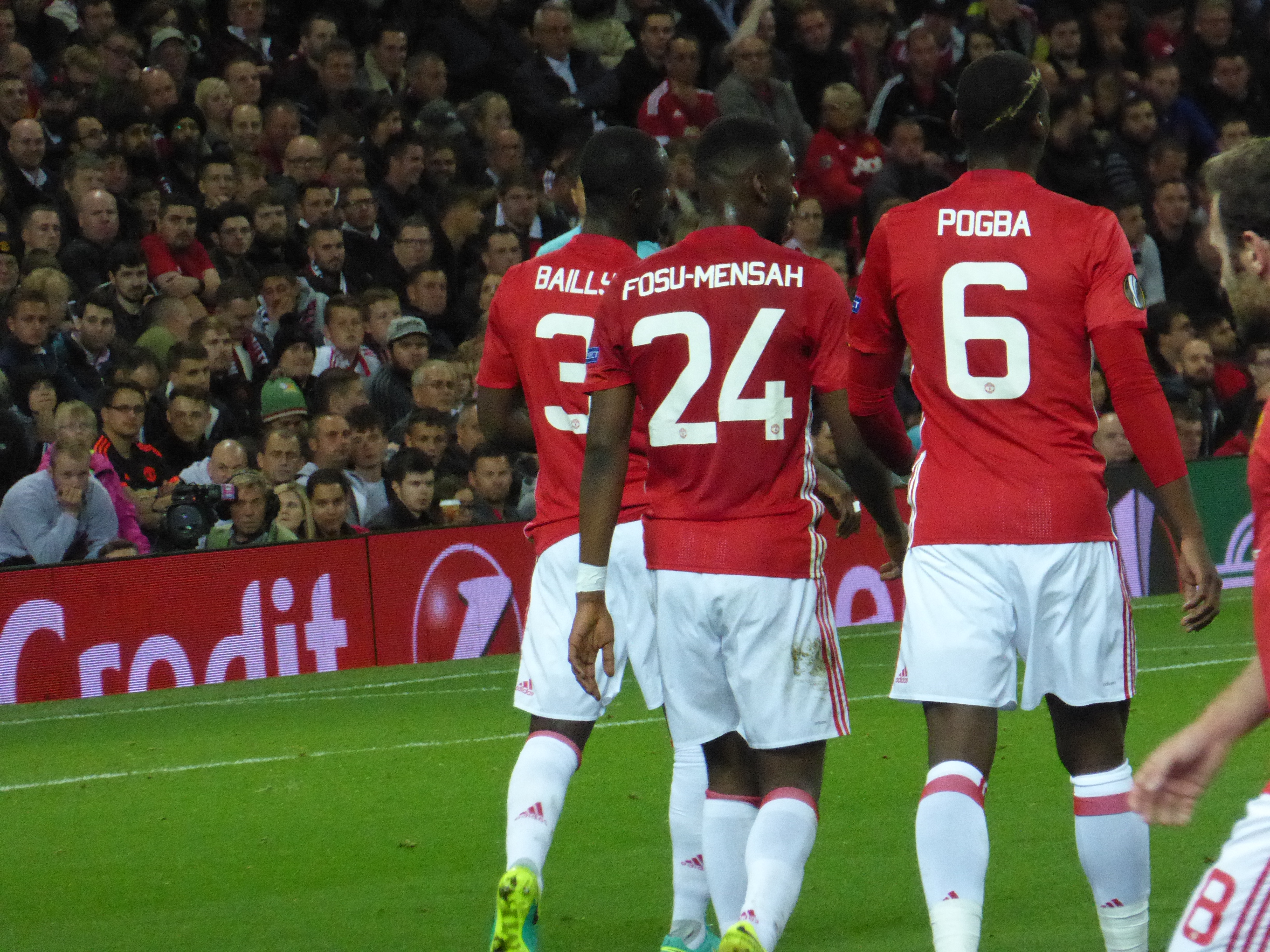 Manchester United v Zorya Luhansk (1-0), Europa League, Old Trafford, Manchester, Greater Manchester, England, September 2016